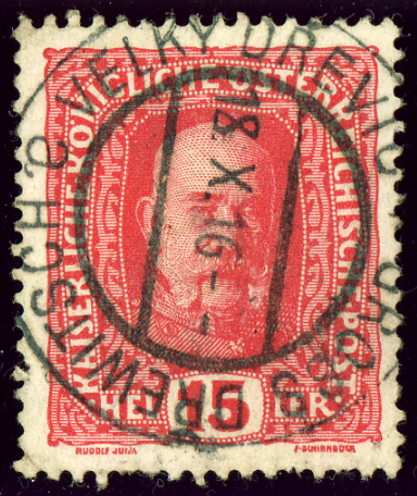 Austrian KK 15 heller stamp (issued 1 October 1916), early bilingual cancelled on 18 October Gross Drewitsch - Velky Drevic (Hronov), Bohemia